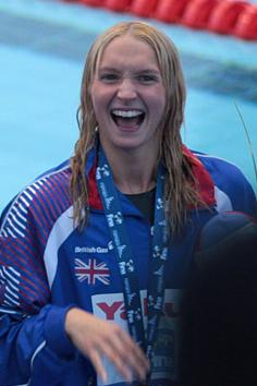 British swimmer Caitlin McClatchey, bronze medallist on the 4x200 metre relay at the 2009 World Championships. depicted person: Caitlin McClatchey (age: 23.67)